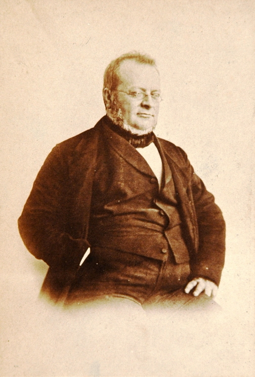 Ludovico Tuminello (1824-1907) - Italian statesman Camillo Benso, earl of Cavour (1810-1861).